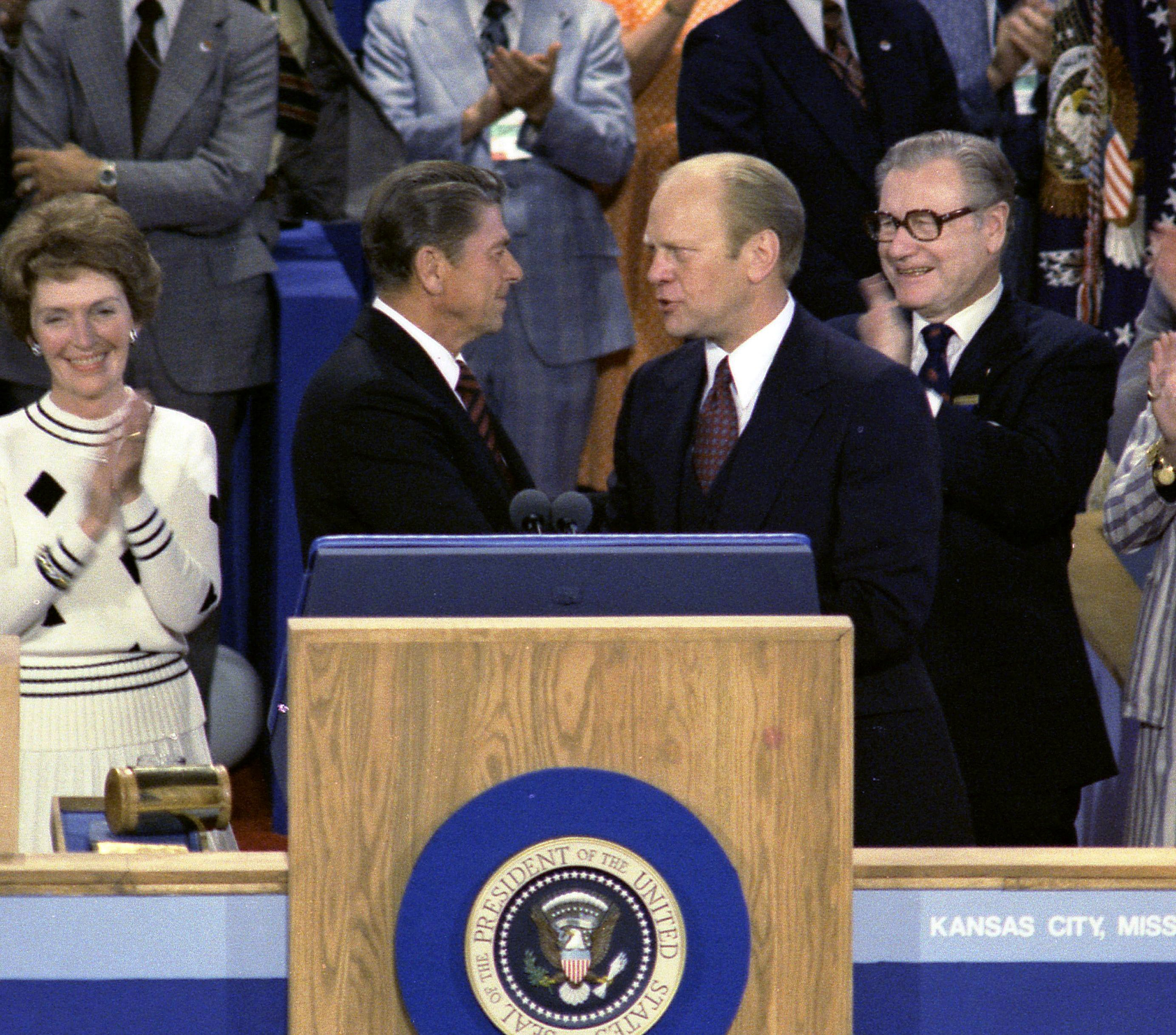 President Gerald Ford, as the Republican nominee, shakes hands with nomination foe Ronald Reagan on the closing night of the 1976 Republican National Convention. Vice-Presidential Candidate Bob Dole is on the far left, then Nancy Reagan, Governor Ronald Reagan is at the center shaking hands with President Gerald Ford, Vice-President Nelson Rockefeller is just to the right of Ford, followed by Susan Ford and First Lady Betty Ford.